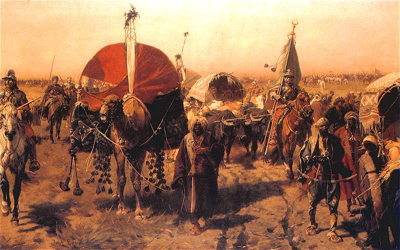 Polish-Lithuanian Commonwealth army returning with loot after defeating the Ottoman Empire forces sieging Vienna, during the battle of Vienna (1683).